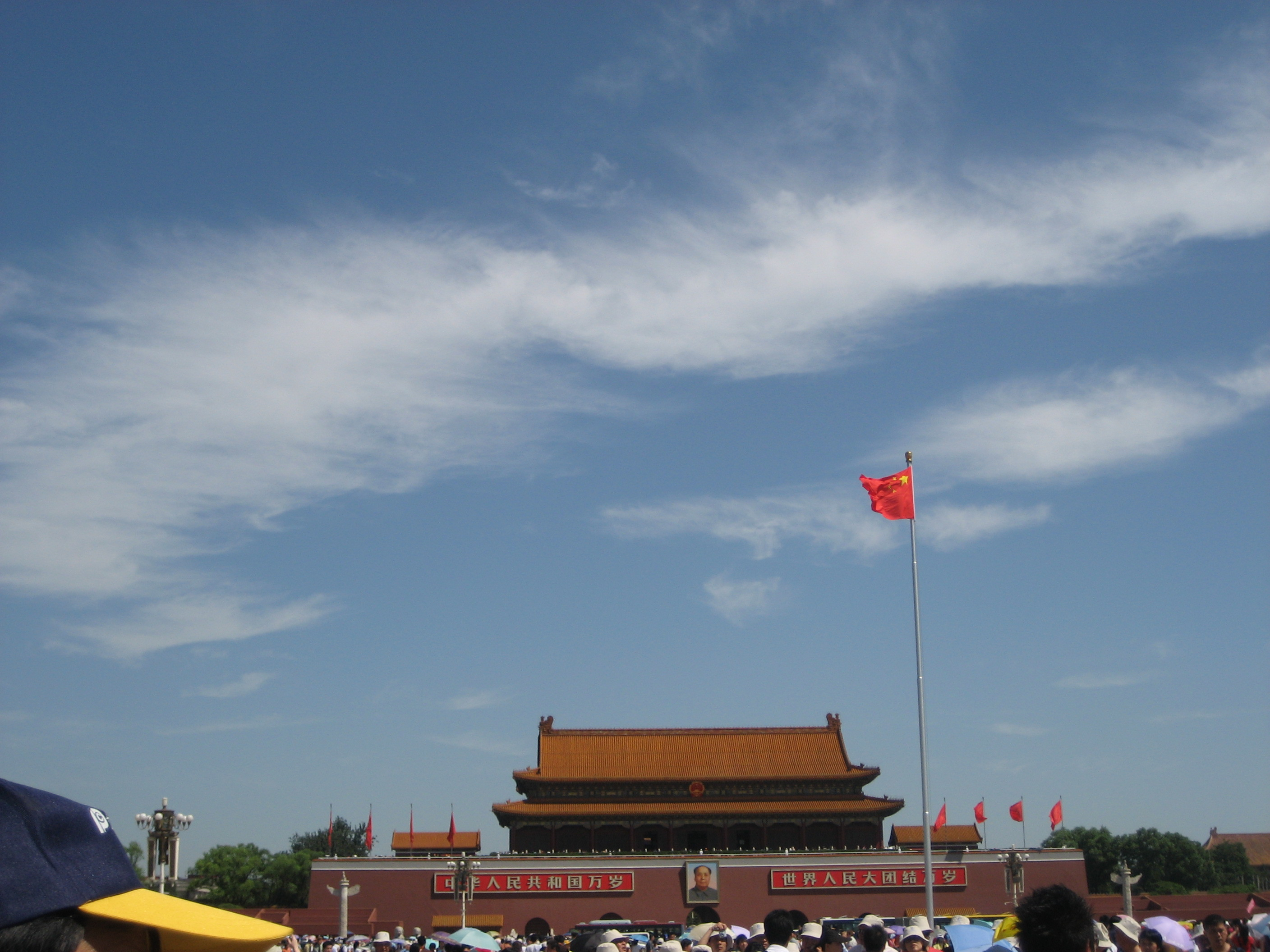 Image of the Tiananmen gate